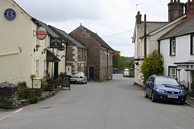 Menheniot